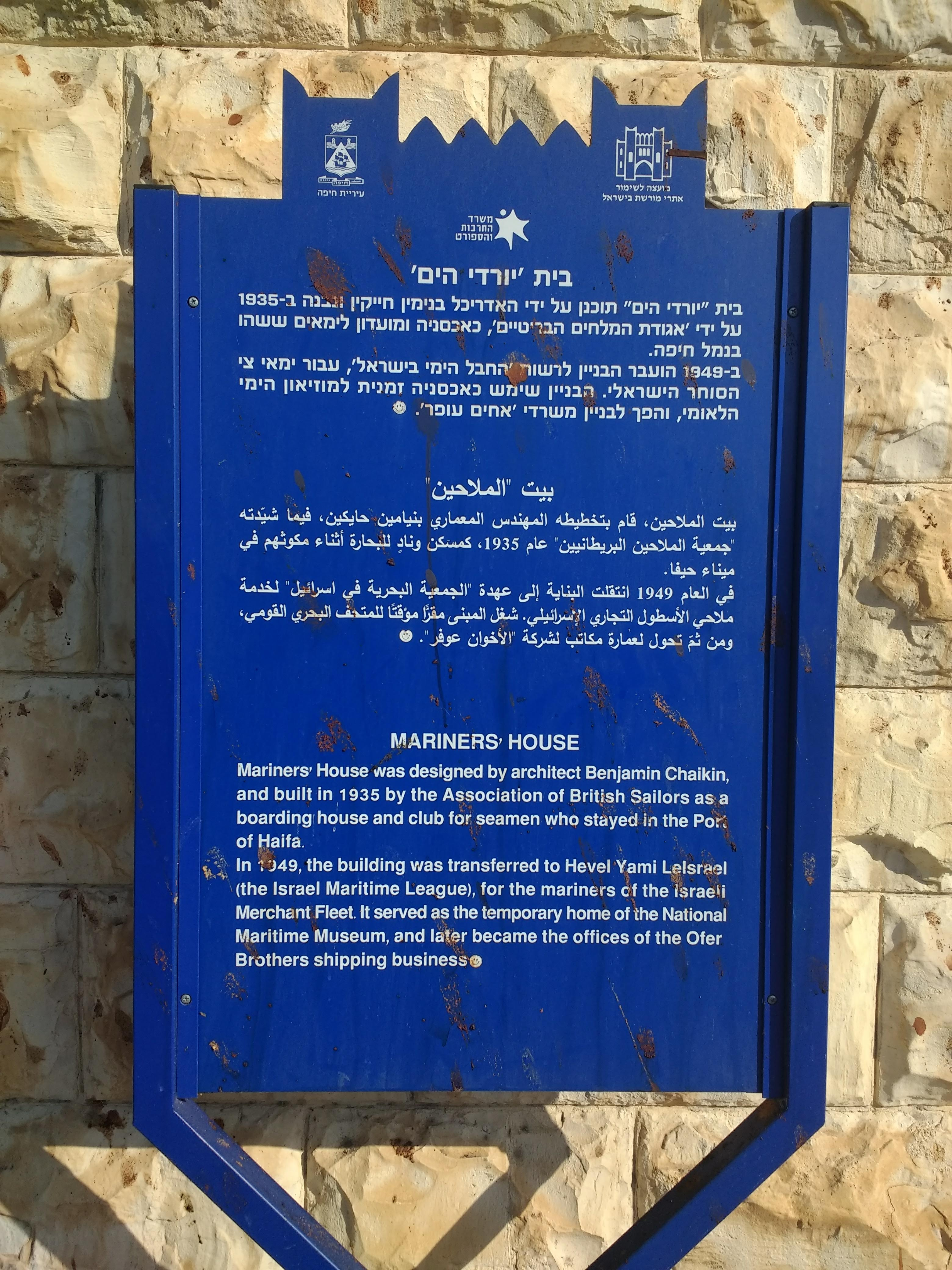 Mariner's House, Historical building at Haifa downtown, Captain Steve Street Sign declaring it's a historical site with a brief history of the building